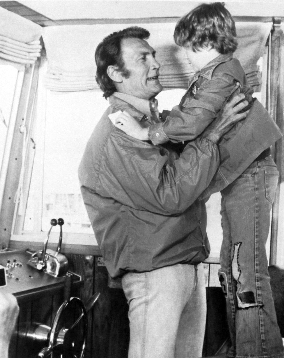 Photo of Jack Palance and Robbie Rist from the premiere episode of the television program Bronk. Palance played detective Alex Bronkov in the series which aired for one season.